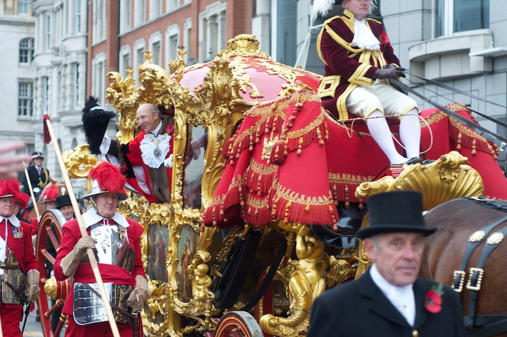 The Lord Mayor of the City of London The Lord Mayor's Show 2010 London, UK